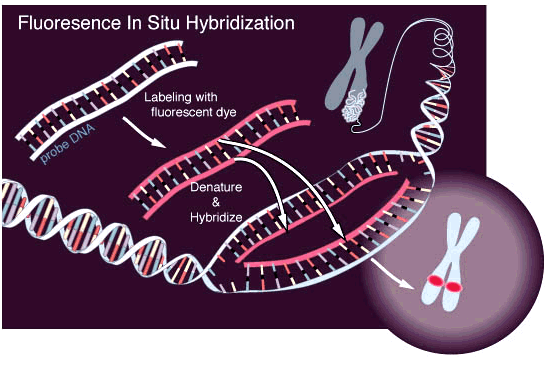 Fluorescent in-situ hybridization is a process which vividly paints chromosomes or portions of chromosomes with fluorescent molecules. This technique is useful for identifying chromosomal abnormalities and for gene mapping.